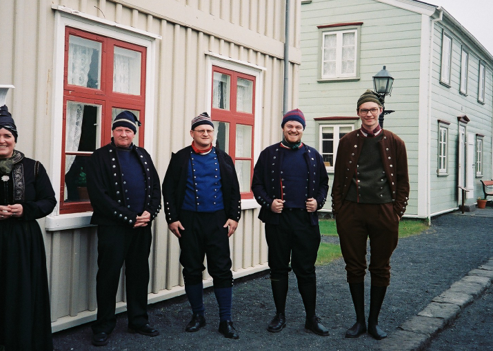 Icelandic men wearing their national costumes in Árbæjarsafn.